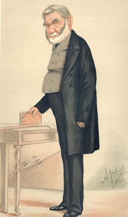 Caricature of Anthony Panizzi (1797-1879). Caption read "Books".